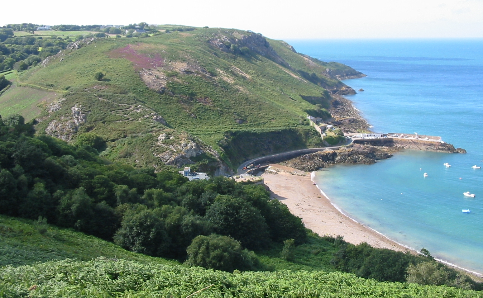 Bouley, Trinity, Jersey, 27 July 2009